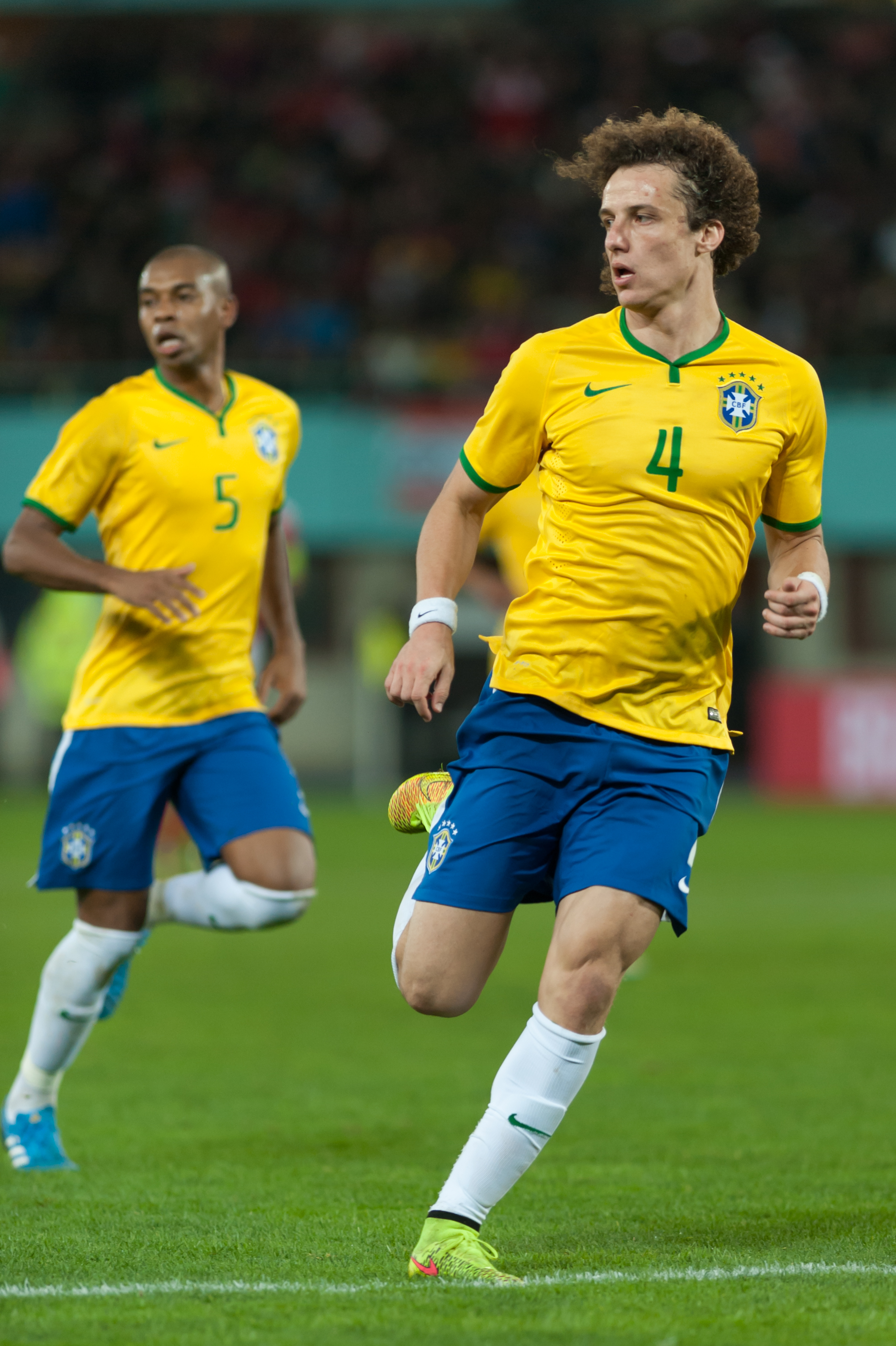 International Friendly Austria - Brazil November 18, 2014: David Luiz